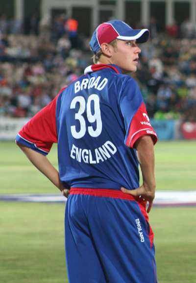 Stuart Broad in the 3rd ODI at the Rose Bowl, 5th September 2006